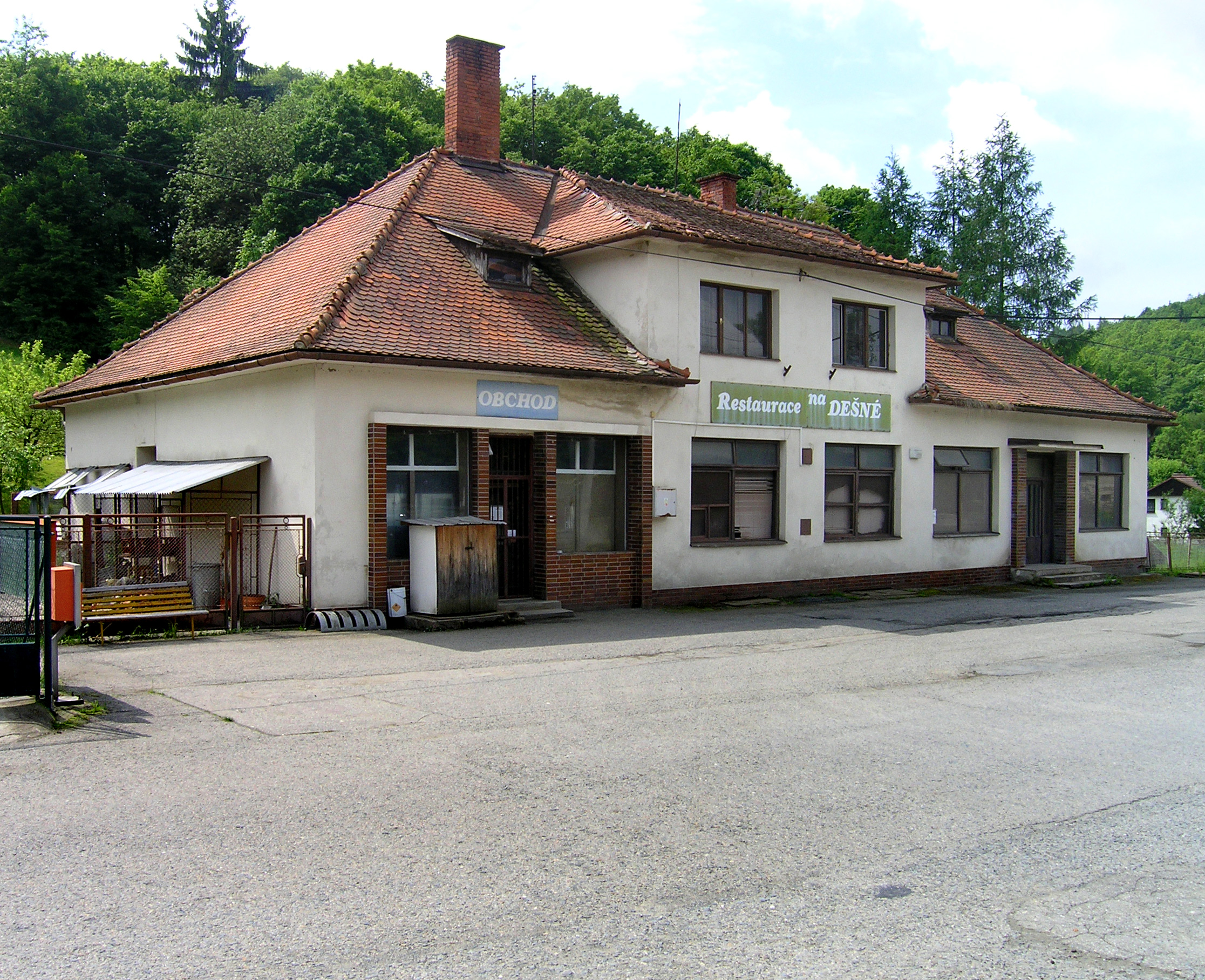 Old restaurant in Dešná village, Czech Republic